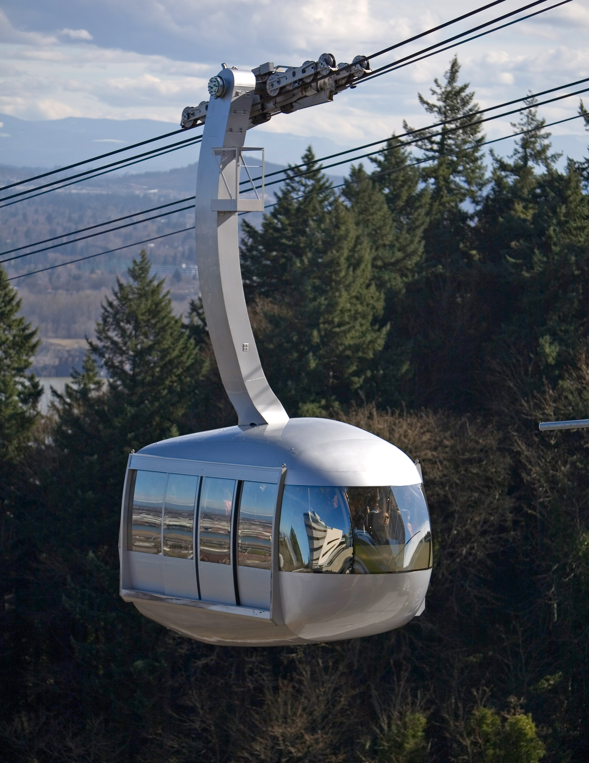 Portland Aerial Tram car.